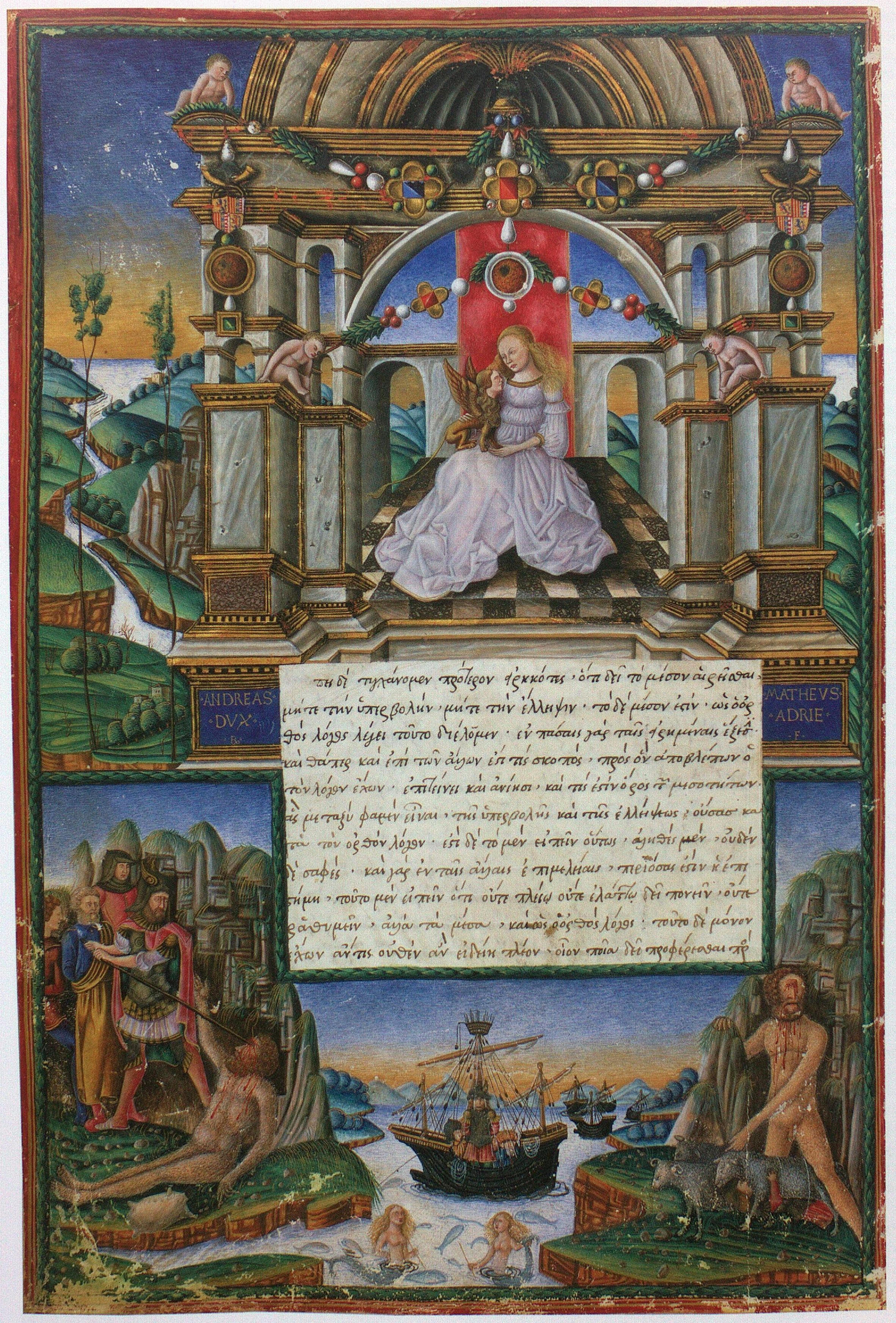 The beginning of the sixth book of the Nicomachean Ethics in a manuscript written in Southern Italy for Andrea Matteo Acquaviva, duke of Atri.. Manuscript: Vienna, Österreichische Nationalbibliothek, Cod. phil. gr. 4, fol. 45v.